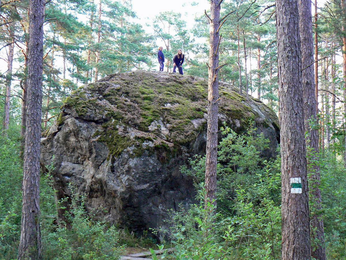 Glacial erratic Majakivi in Estonia